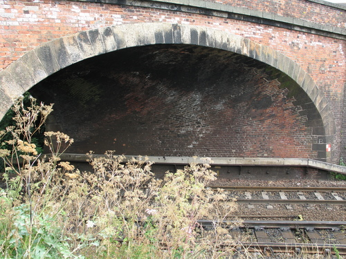 A skew arch bridge carrying the A377 road over the Bristol to Exeter railway line at Cowley Bridge Junction. The arch is built to the "corne de vache" or cow's horn pattern and it is sometimes called French coursing, though it was introduced by English civil engineer William Froude